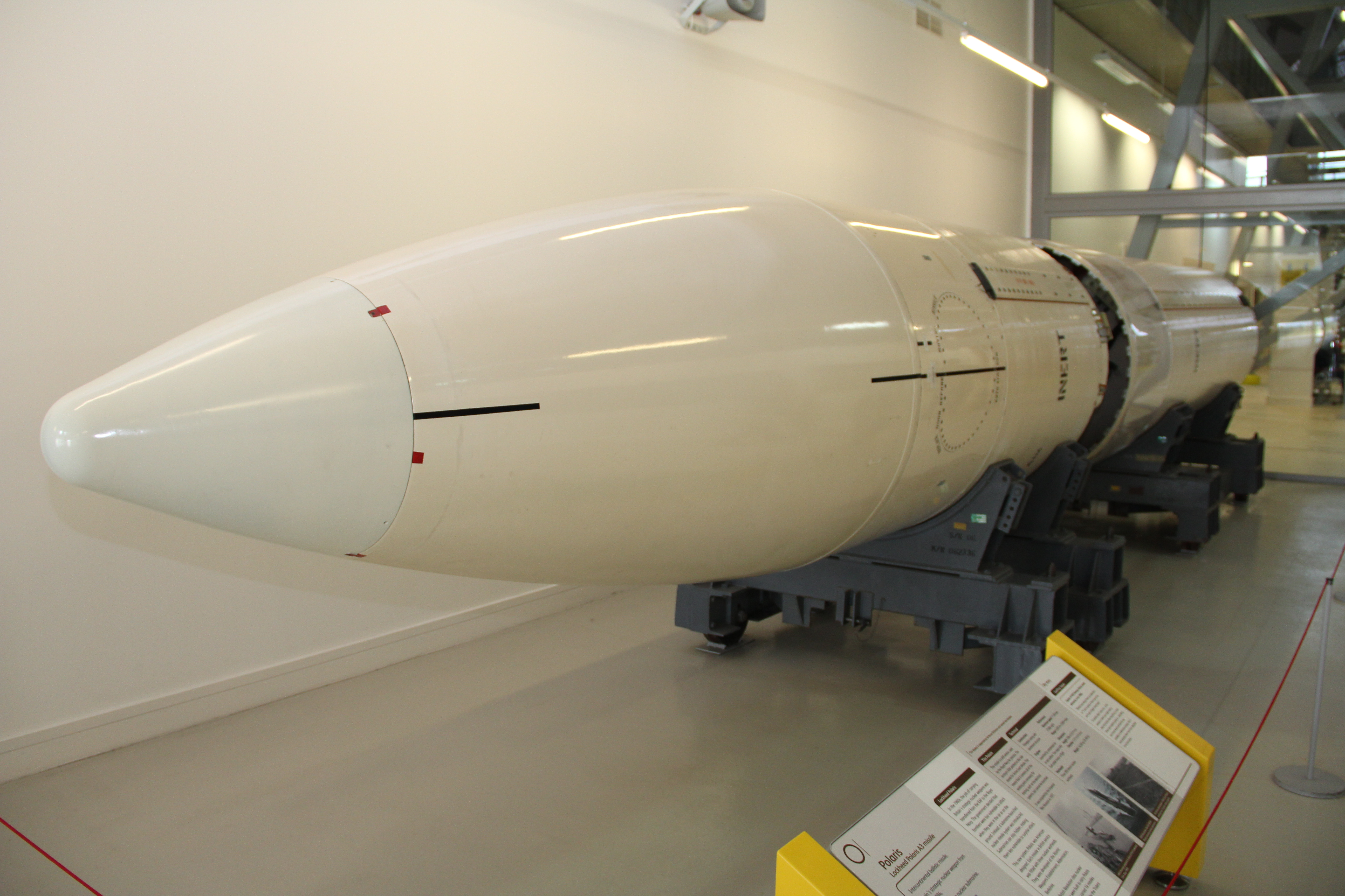 UGM-27 Polaris A3 SLBM